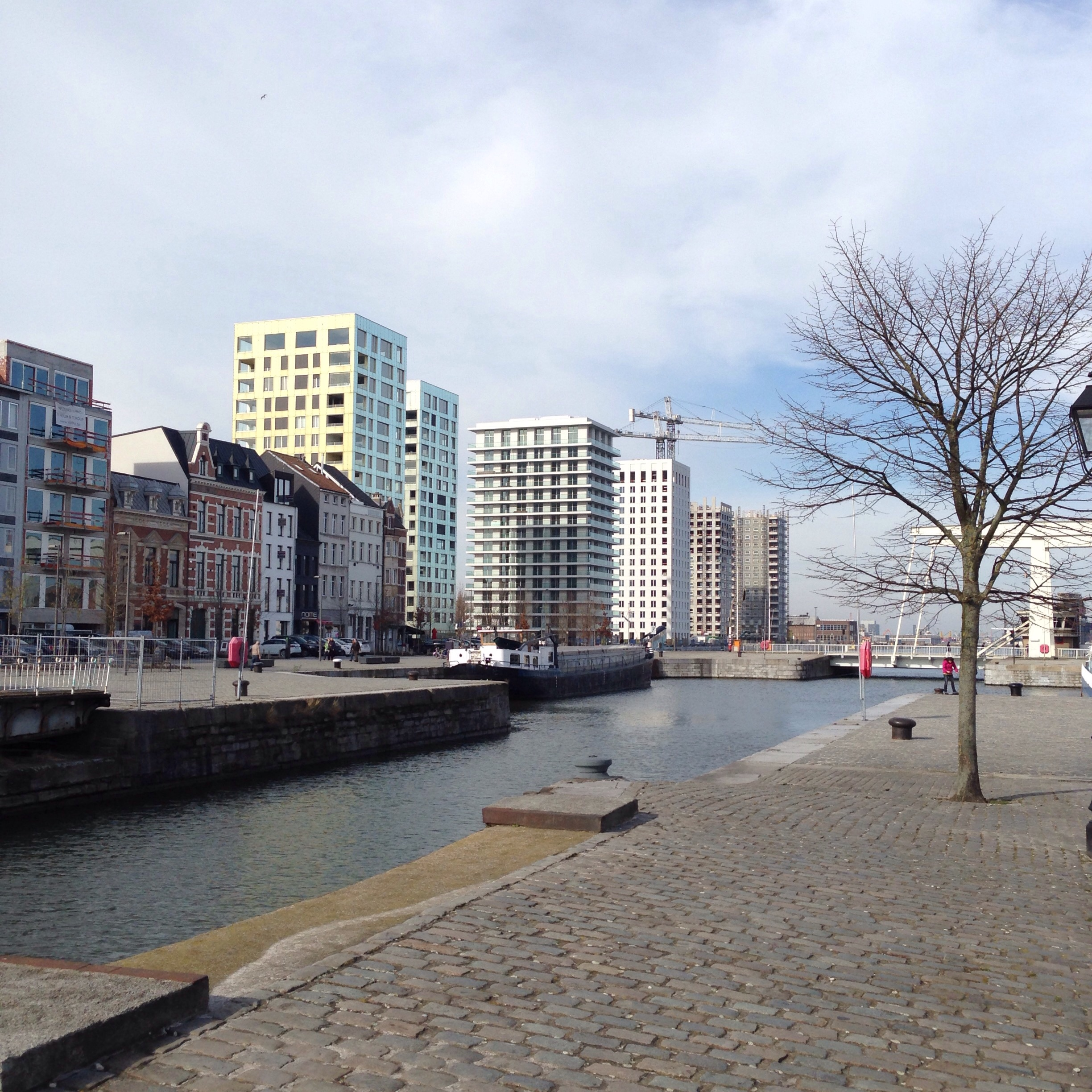 Antwerp 'Eilandje' area